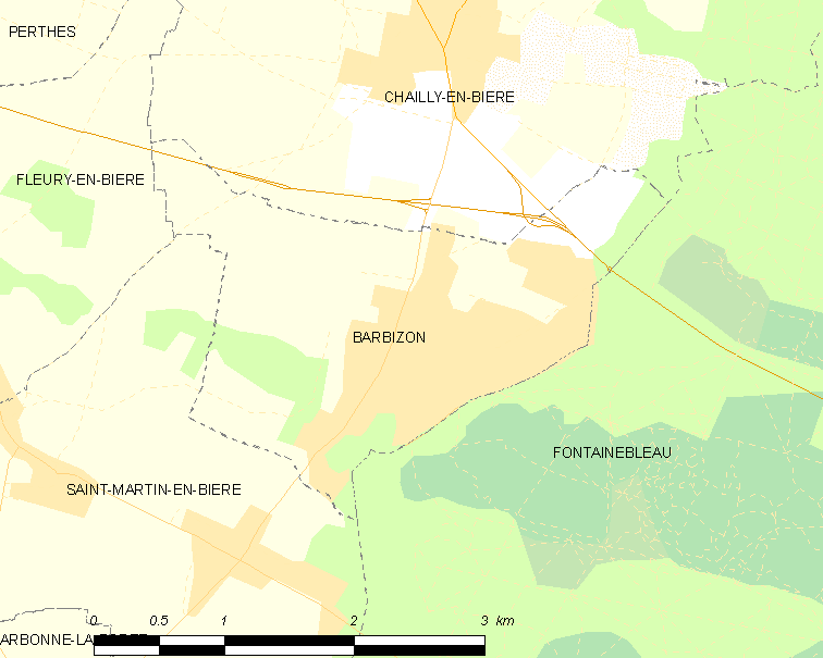 Map of French municipality Barbizon